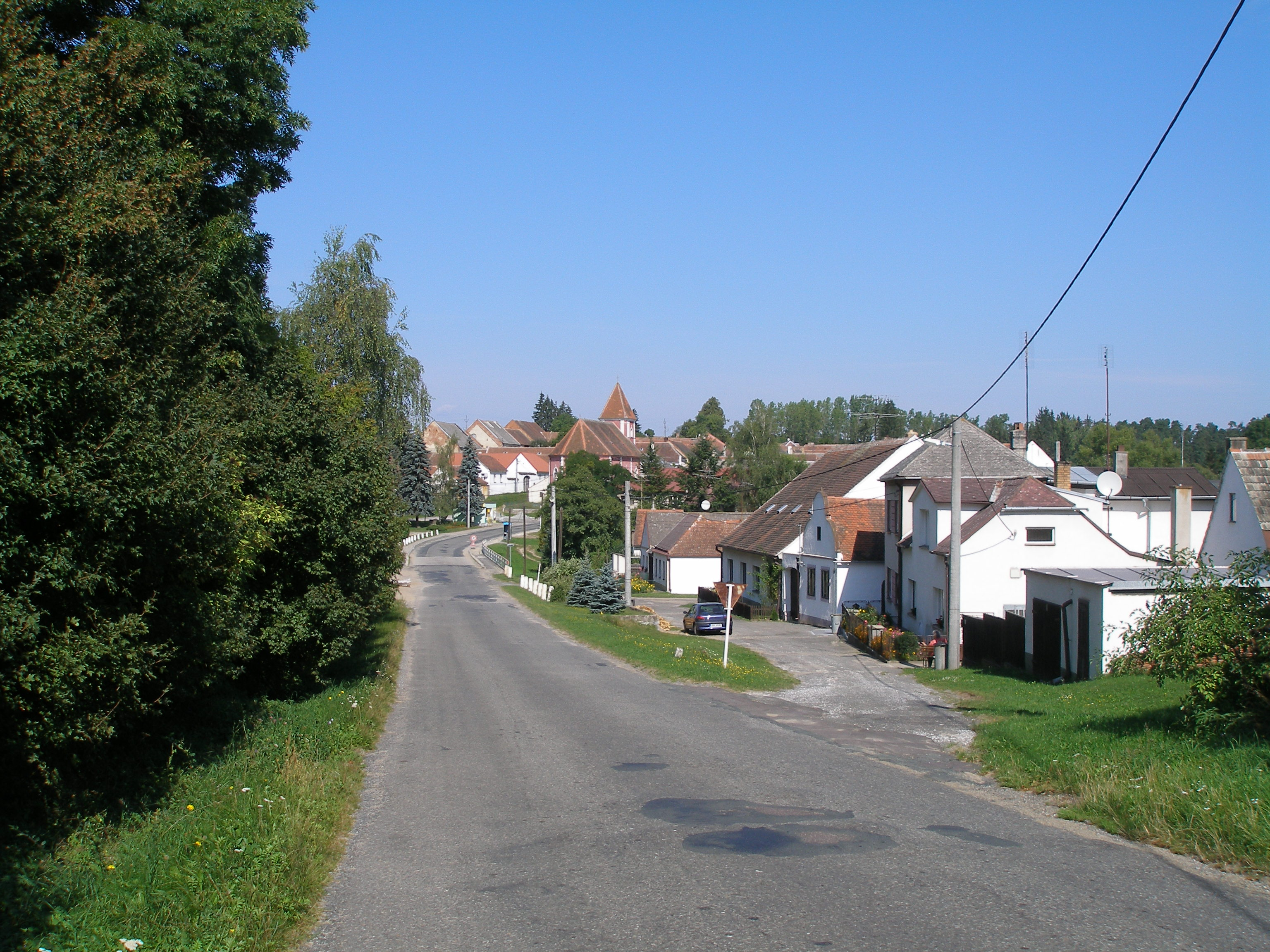 Lubnice (Znojmo district) - the view of the Southern part of the village